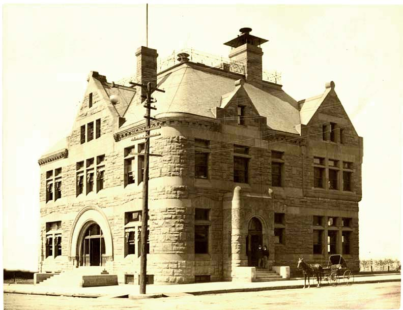 Historic Federal Courthouses Davenport, Iowa U.S. Post Office (1900) Completed in 1896. Supervising Architect: Willoughby J. Edbrooke The U.S. District Court for the Southern District of Iowa met here from 1904 until 1932; the U.S. Circuit Court for the Southern District of Iowa met here from 1904 until that court was abolished in 1912. Razed in 1932.